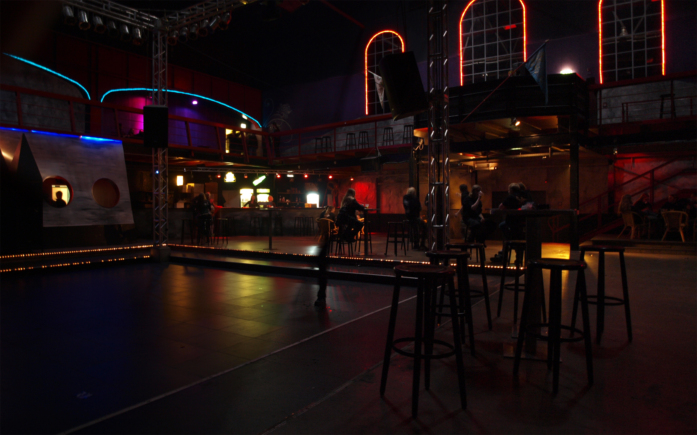 t-zone of the turbinenhalle, oberhausen, during ultima ratio 2008 still quite empty